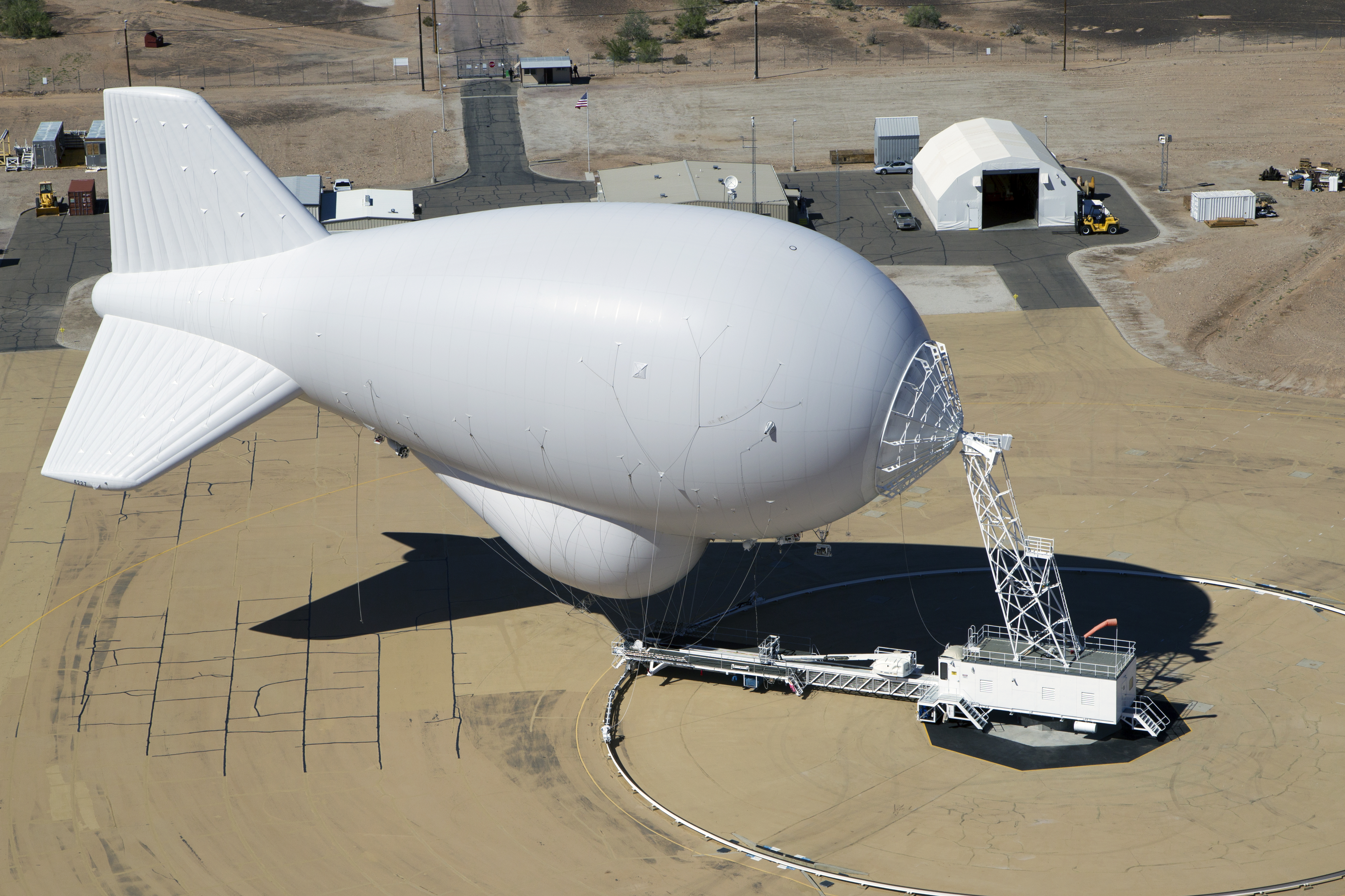 091714: Yuma, AZ - U.S. Customs and Border Protection, Office of Air and Marine Tethered Aerostat Radar System (TARS). Photographer: Donna Burton